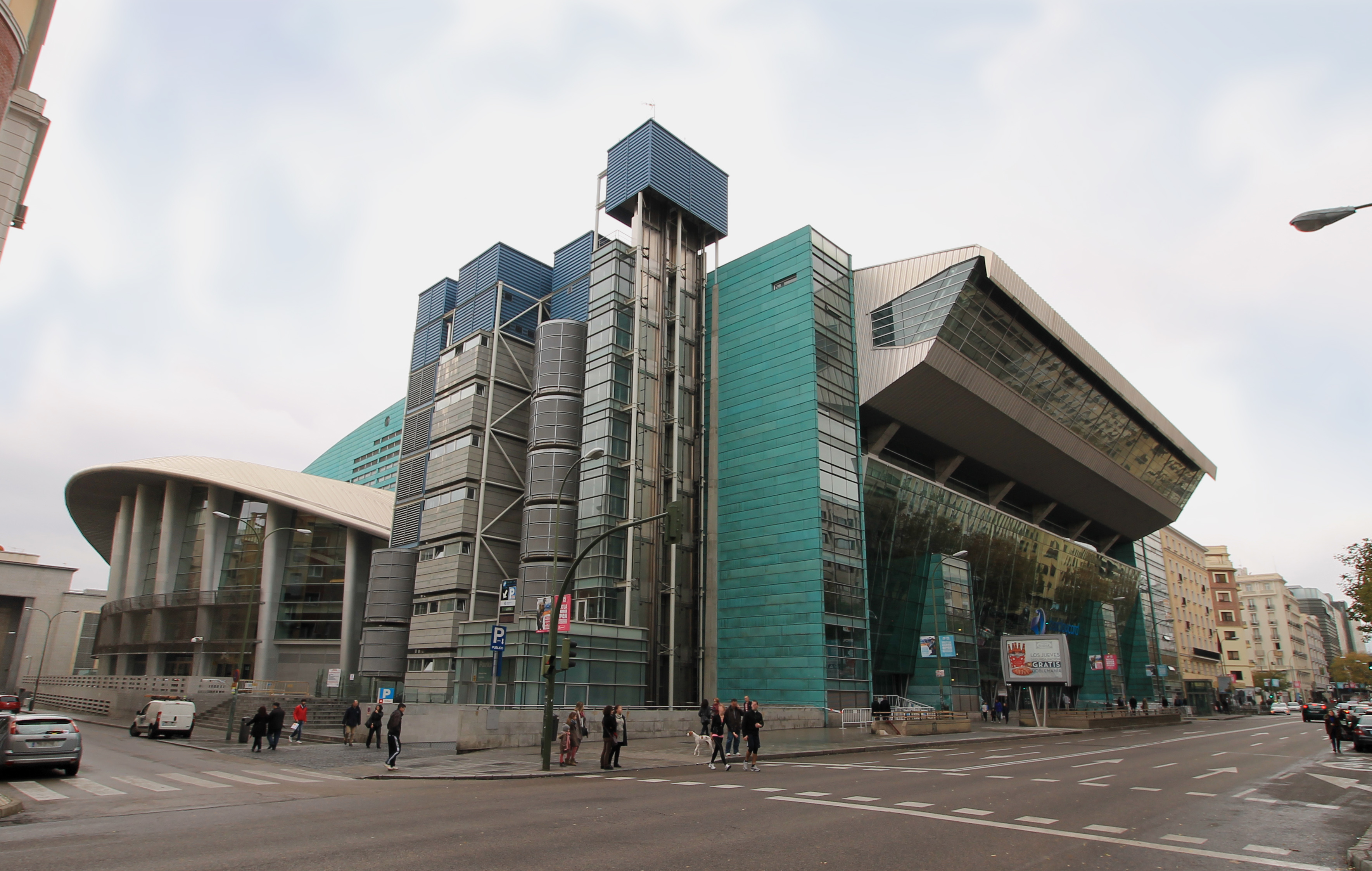 View of the Community-of-Madrid Sports Centre (Madrid, Spain) from the north-eastern angle.